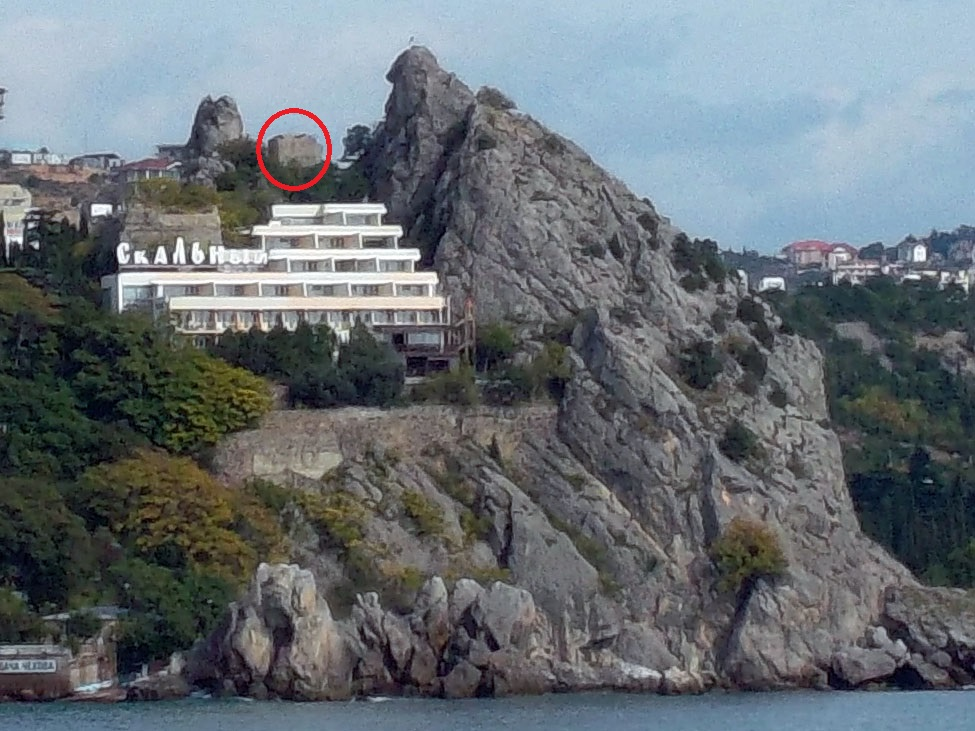 Cliff Dzhenevez-Kai in gurzuf with artificial third its branch called vukhati